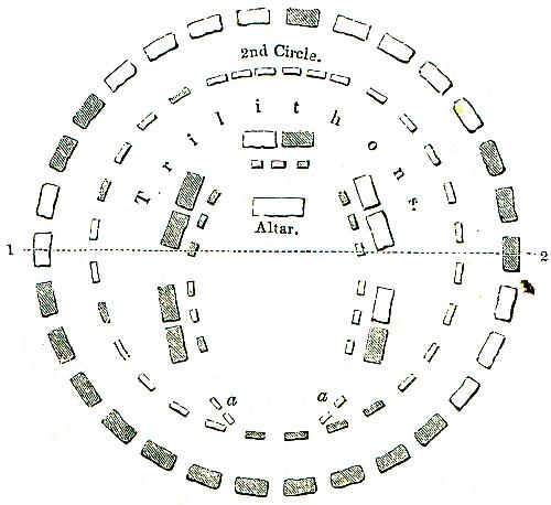 File taken from Copyright notation says: public domain in the USA, out of copyright in Canada, hence royalty-free stock image for all purposes and no usage credit required Original work done in 1840s.